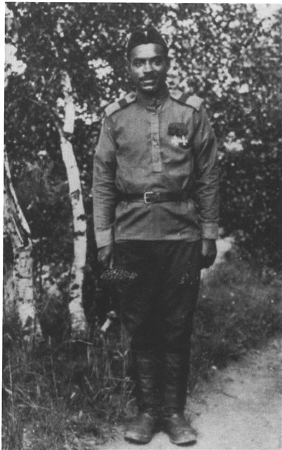 French citizen Marcel Pla who served in Russian air force during The first world war